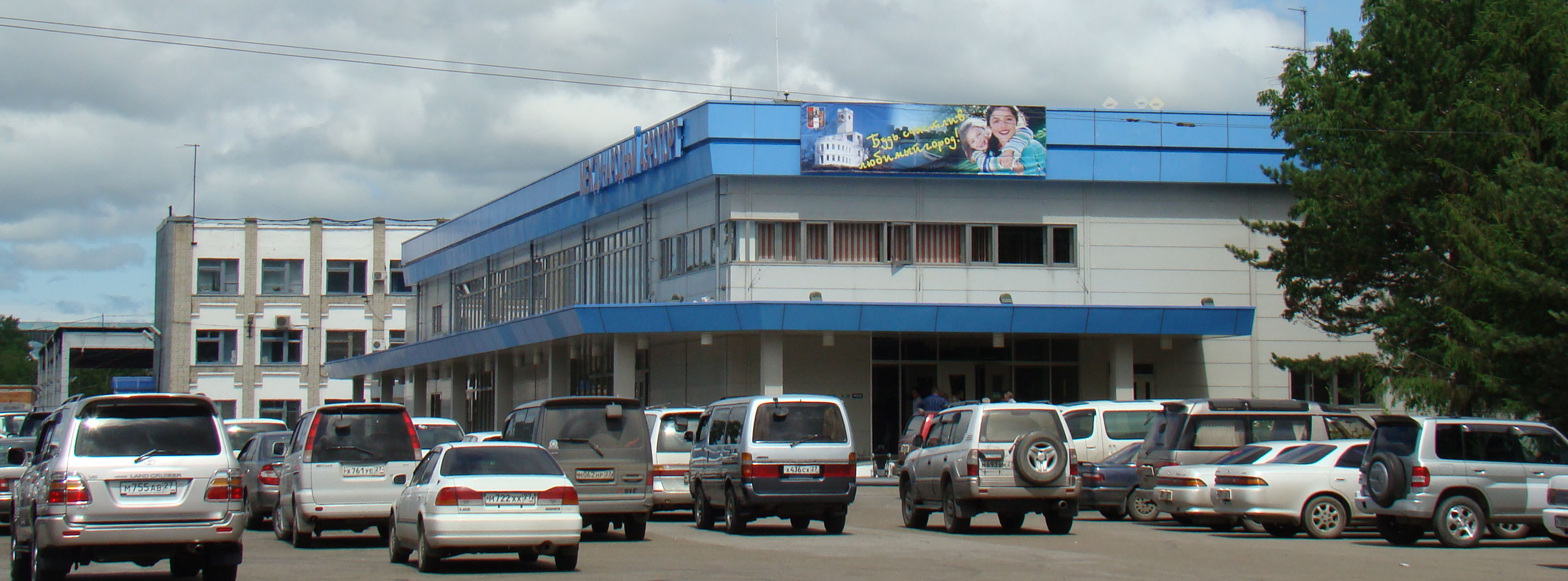 International terminal of Khabarovsk airport Noviy